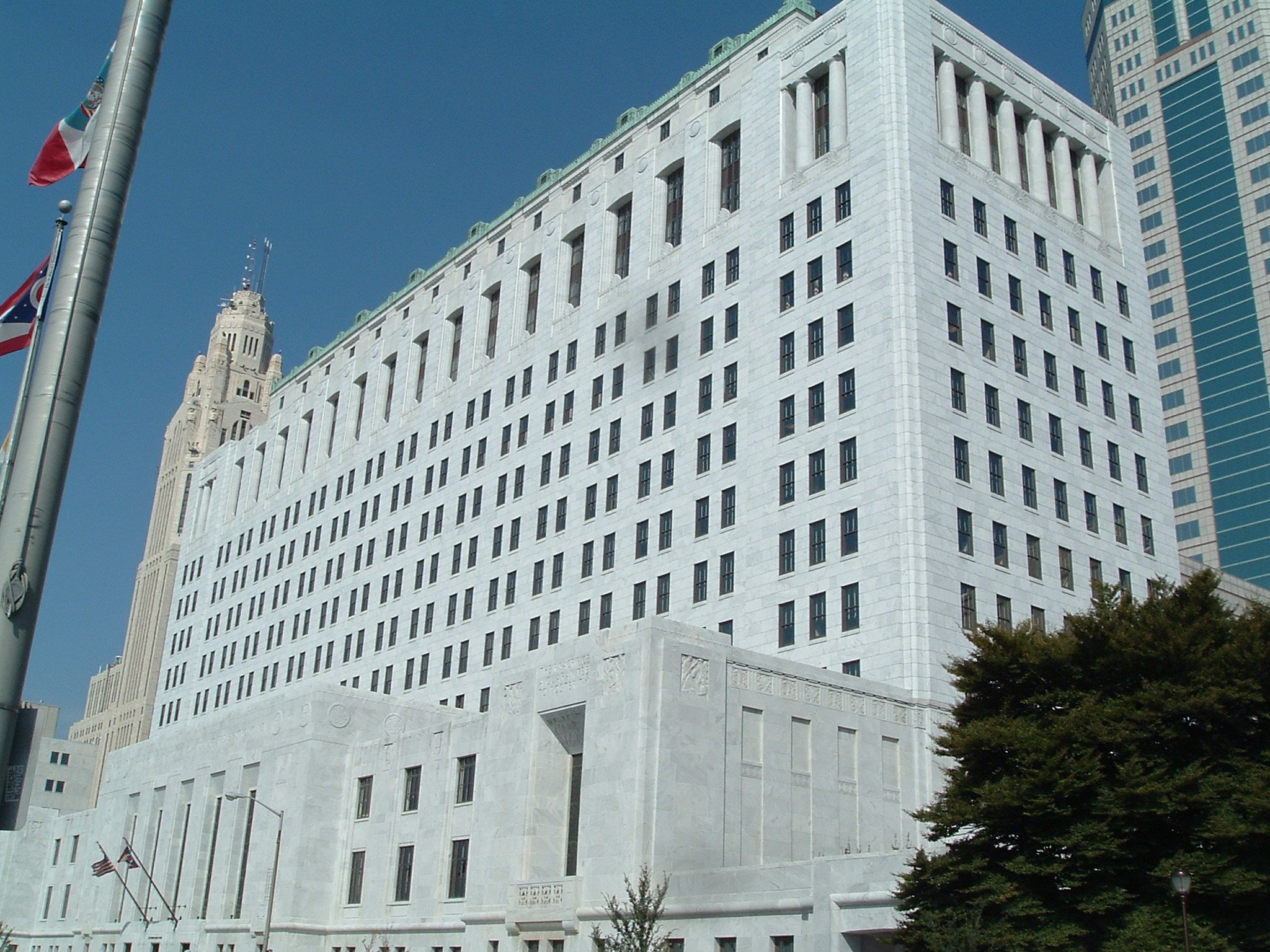 Self made photo, taken August 05.